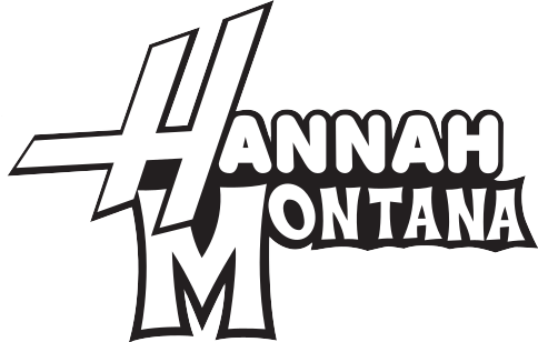 Hannah Montana logo